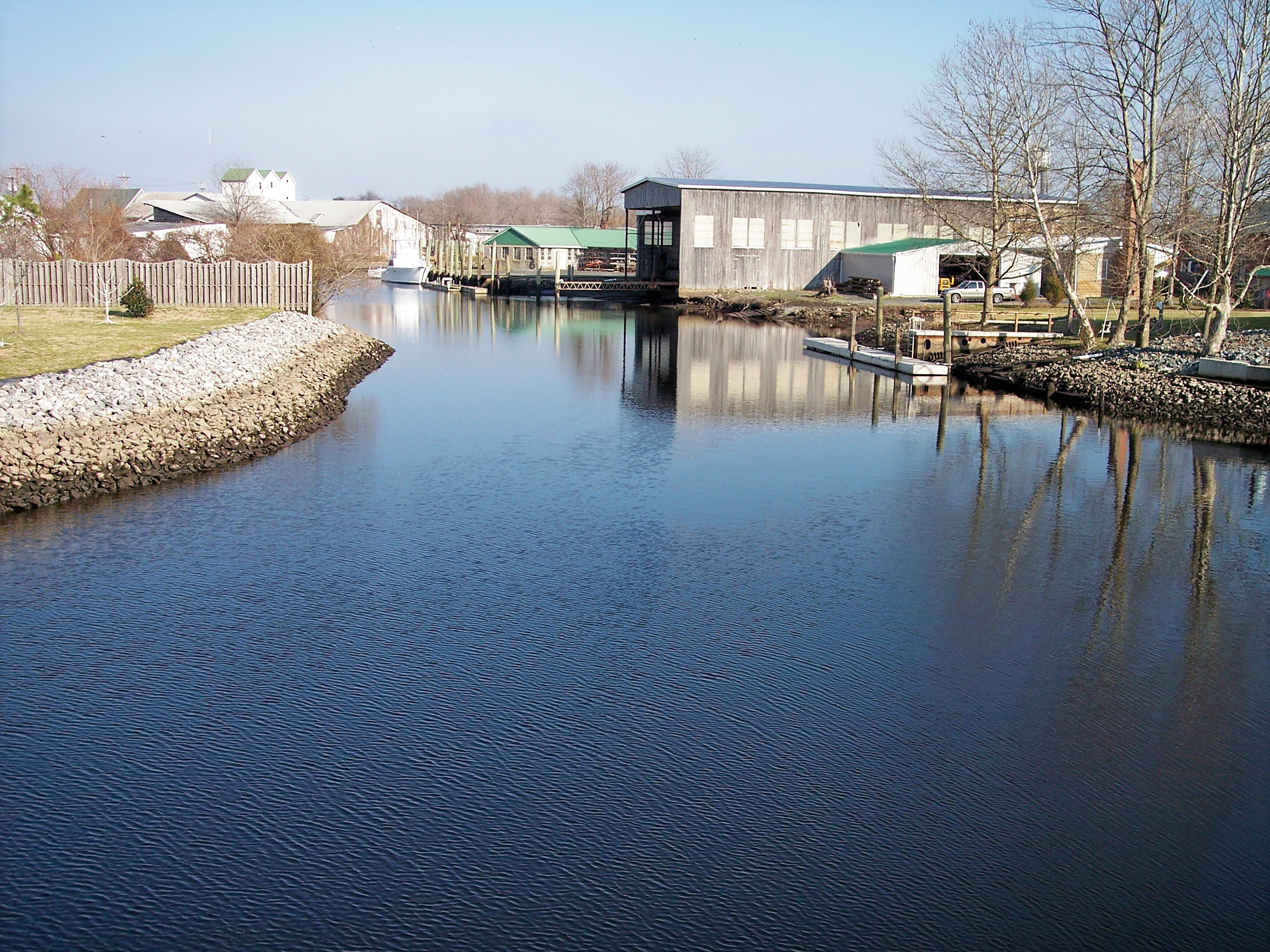 The Mispillion River in Milford, Delaware, as viewed downstream from a pedestrian bridge